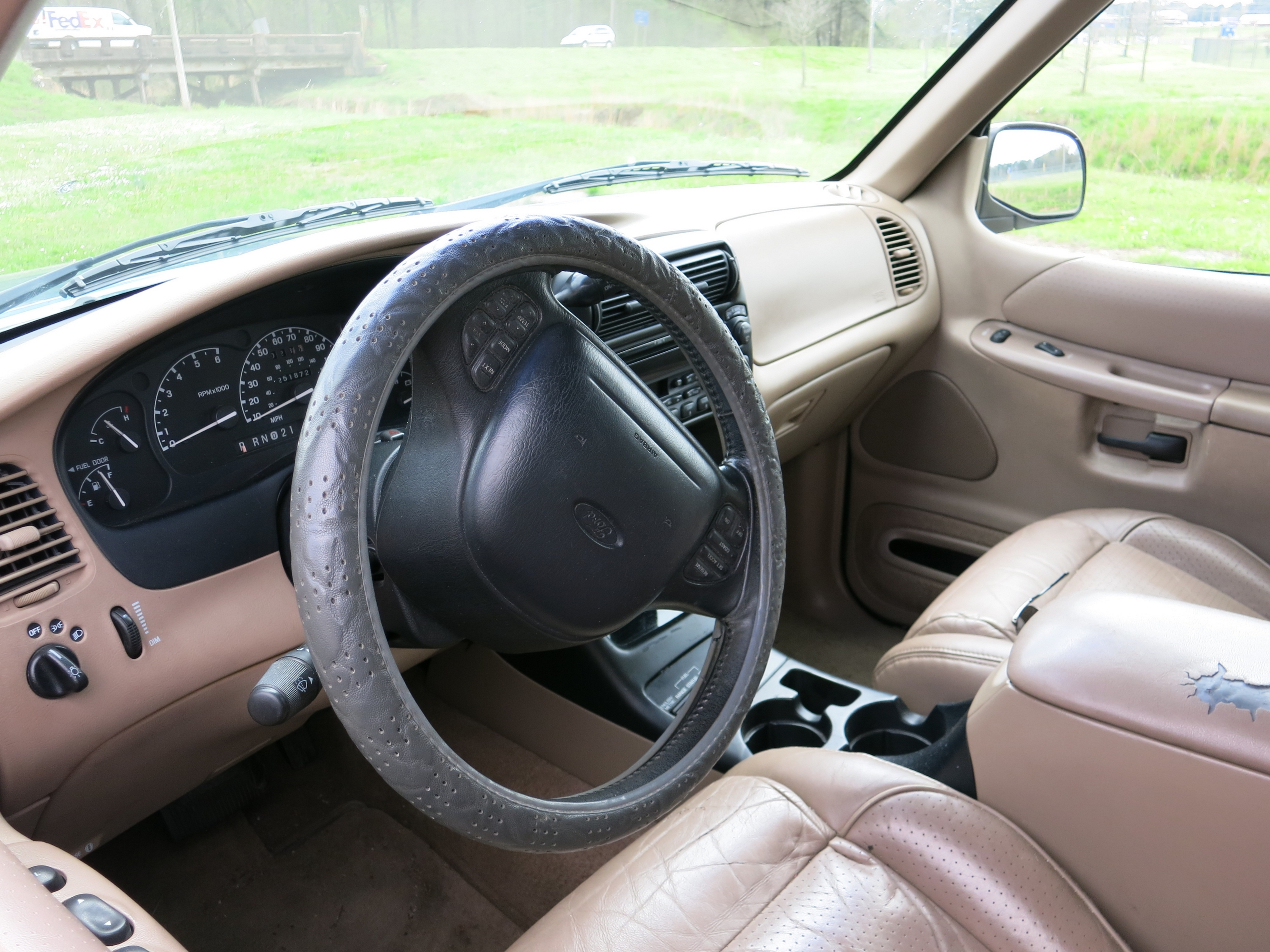 1998 Ford Explorer Eddie Bauer Edition Northside Park Philadelphia, Mississippi